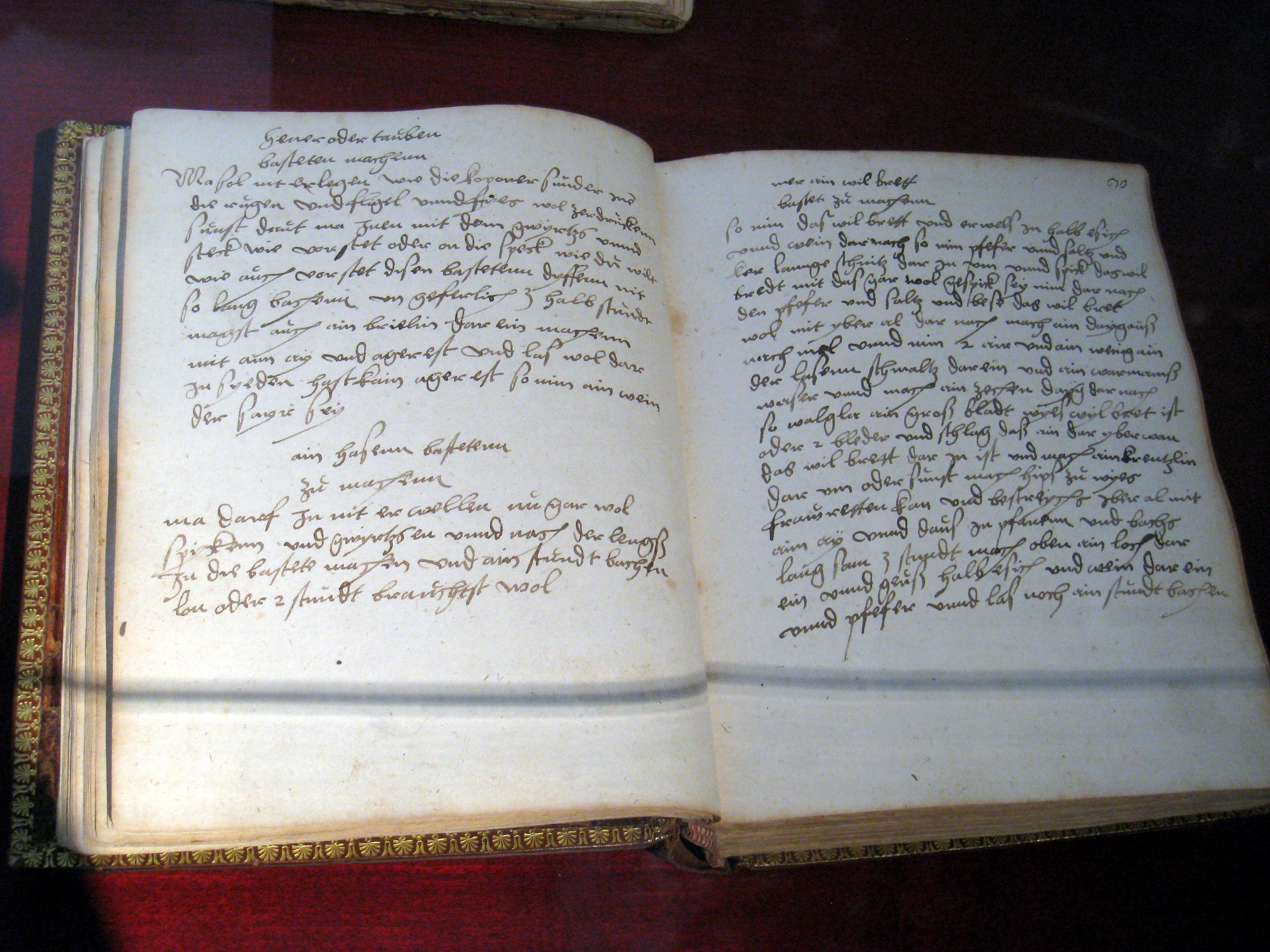 Schloss Ambras, Innsbruck, Austria - cookbook of Philippine Welser. Circa 1543-1544.